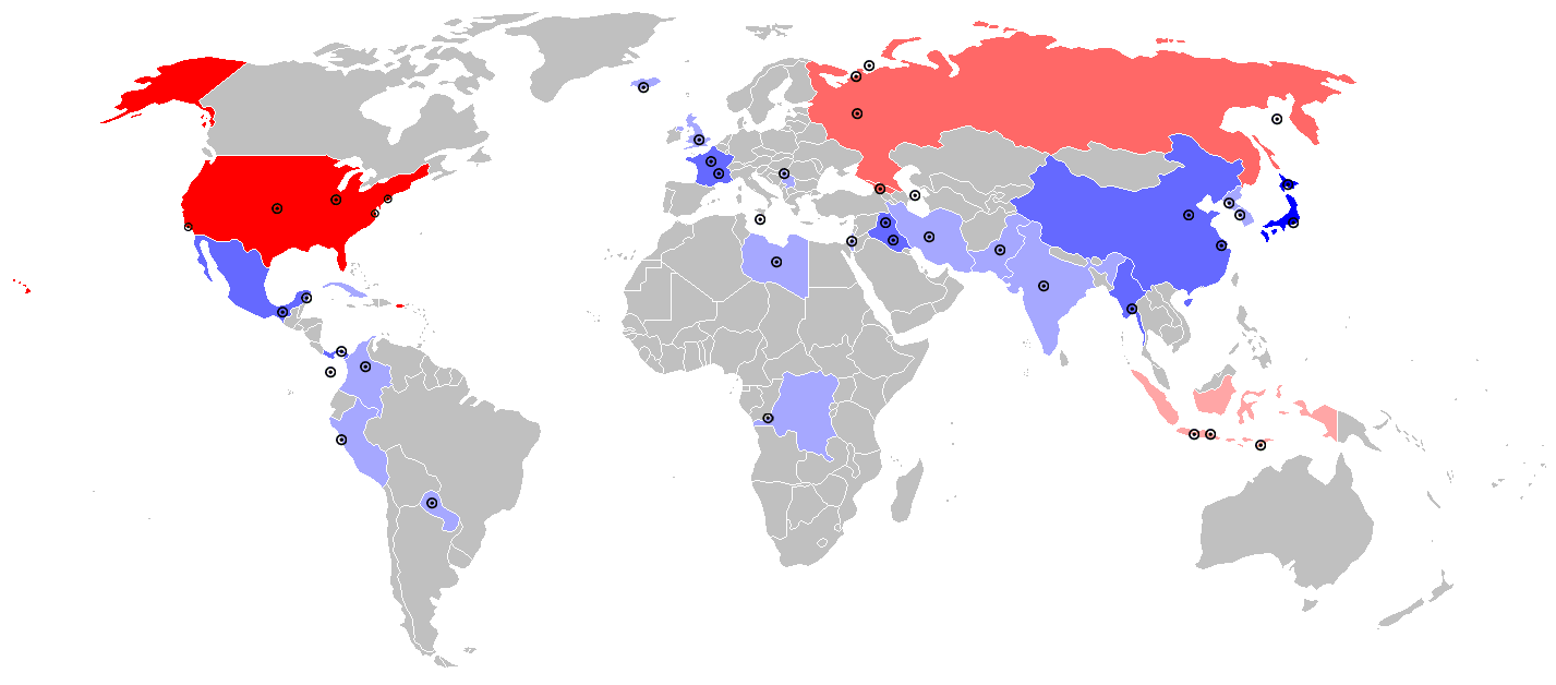 Splinter Cell mission locations map. Each marker represents the location of one or more Splinter Cell missions in all games. Dark Red (Such as the United States) Six or More Missions Red (Such as Russia) Five Missions Light Red (Such as Indonesia) Four Missions Dark Blue (such as Japan) Three missions Blue (Such as France) Two Missions Light Blue (Such as India) One Mission. Each marker represents the location of one or more Splinter Cell missions in all games as of Splinter Cell: Blacklist. This includes the PSP game Splinter Cell: Essentials as well. Dark red (such as the United States): Six or more missions Red (such as the Russian Federation): Five missions Light red (such as Indonesia): Four missions Dark blue (such as Japan): Three missions Blue (such as France and China): Two missions Light blue (such as Mexico and South Korea): One mission. Created by Rkthe2 with a use of the Wikipedia map. This work has no copyright restrictions.